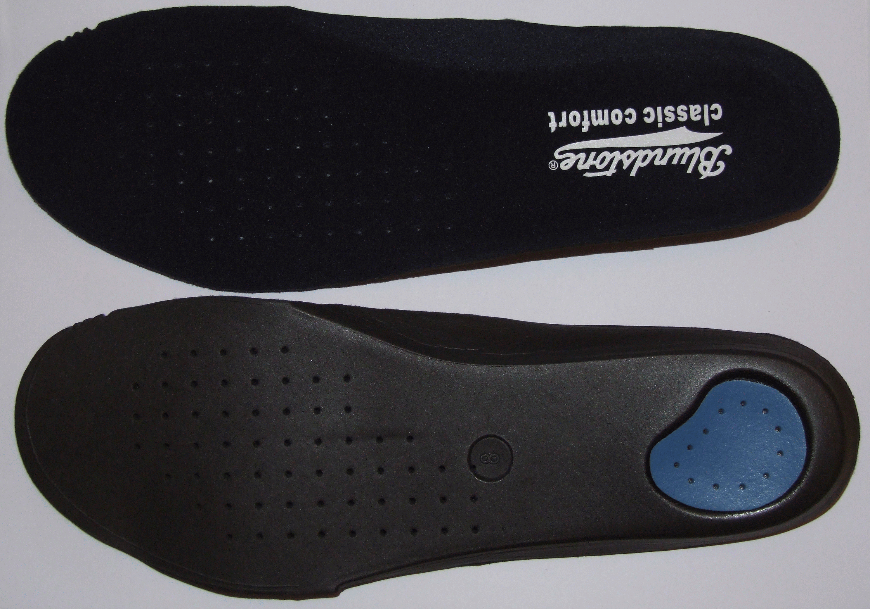 PORON Blundstone footbed